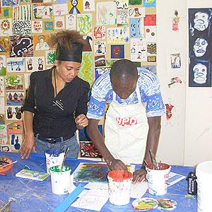 Art therapist Felicity Kodjo watches over a patient during the art therapy workshop.